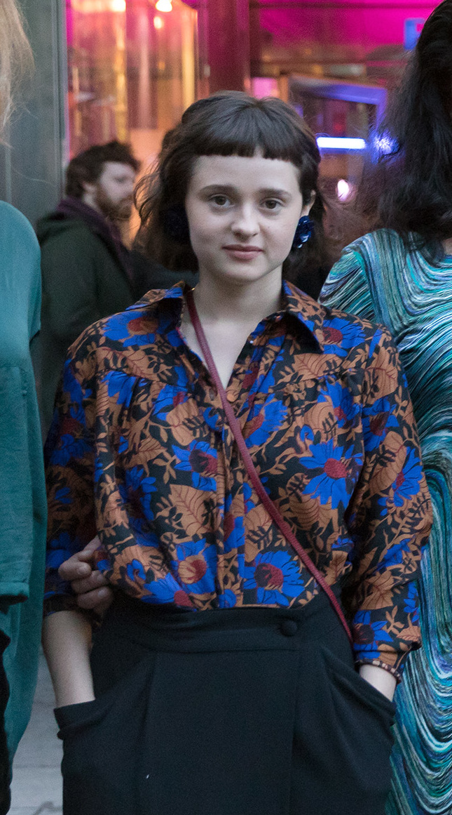 Maresi Riegner of the film team of Mademoiselle Paradis at the Vienna International Film Festival 2017 (Gartenbaukino, Vienna, Austria).